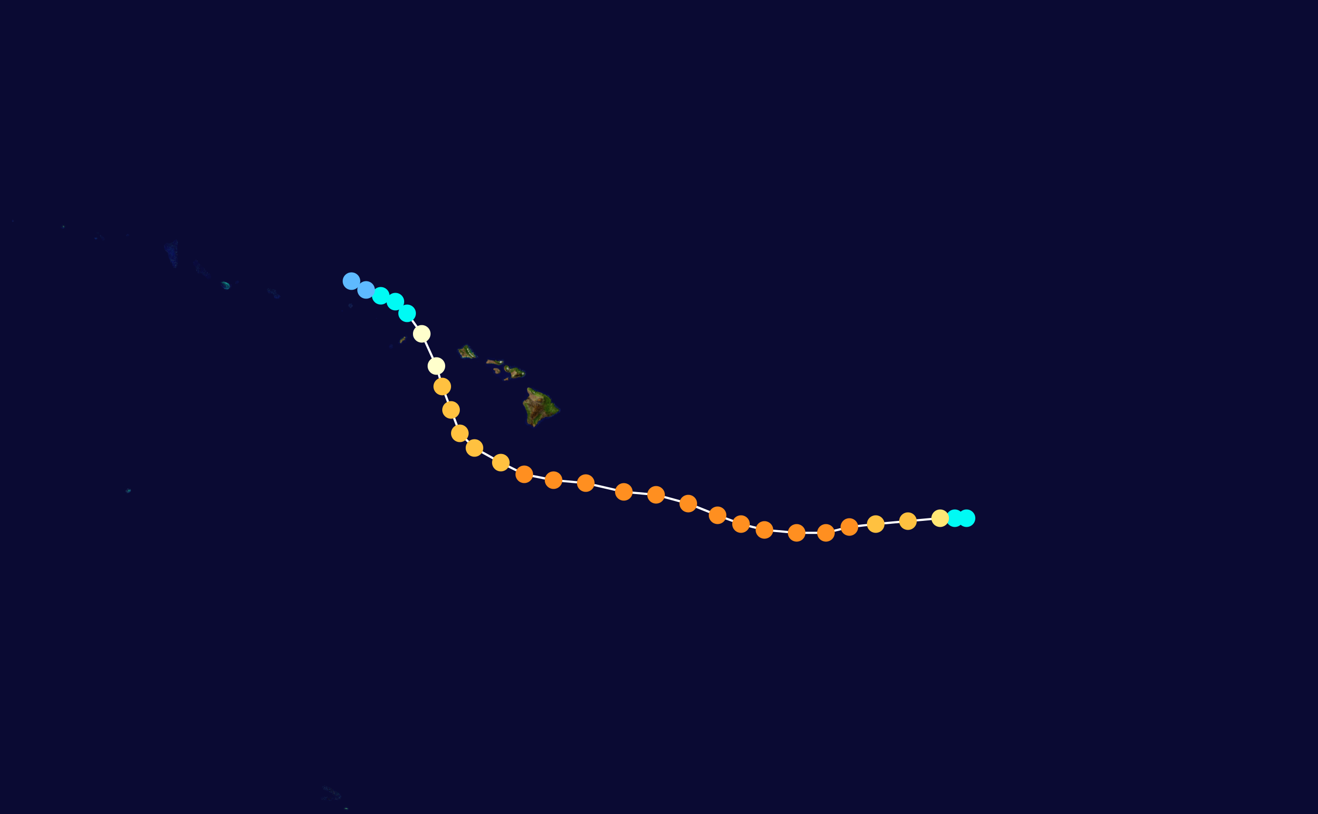 Track map of Hurricane Dot of the 1959 Pacific hurricane season. The points show the location of the storm at 6-hour intervals. The colour represents the storm's maximum sustained wind speeds as classified in the Saffir–Simpson scale (see below), and the shape of the data points represent the nature of the storm, according to the legend below. Saffir–Simpson scale Tropical depression≤38 mph≤62 km/h Category 3111–129 mph178–208 km/h Tropical storm39–73 mph63–118 km/h Category 4130–156 mph209–251 km/h Category 174–95 mph119–153 km/h Category 5≥157 mph≥252 km/h Category 296–110 mph154–177 km/h Unknown Storm typeTropical cycloneSubtropical cycloneExtratropical cyclone / Remnant low / Tropical disturbance